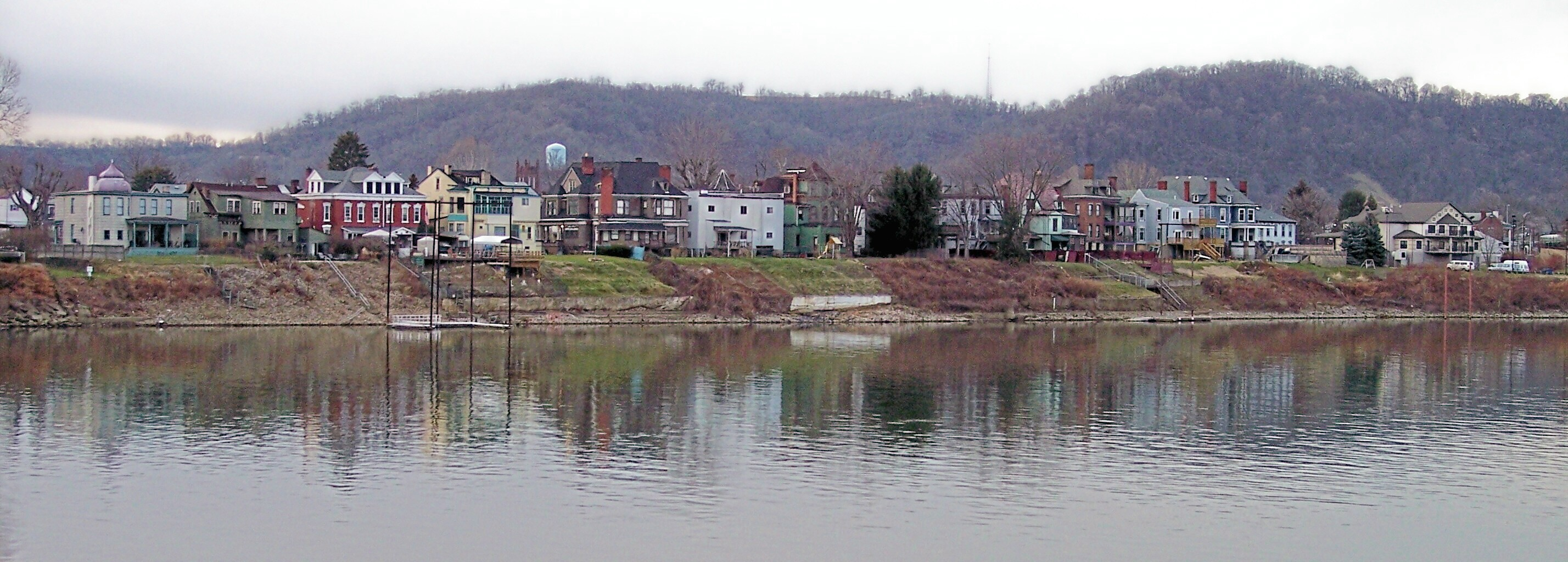 Buildings on Wheeling Island in the Ohio River, as viewed across the east channel of the river from downtown Wheeling, West Virginia. The hills in the background are on the other side of the west channel of the river, in Belmont County, Ohio